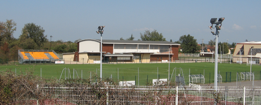 Stade Tony Galan, a footballstadium in Saint-Bonnet-de-Mure, France.